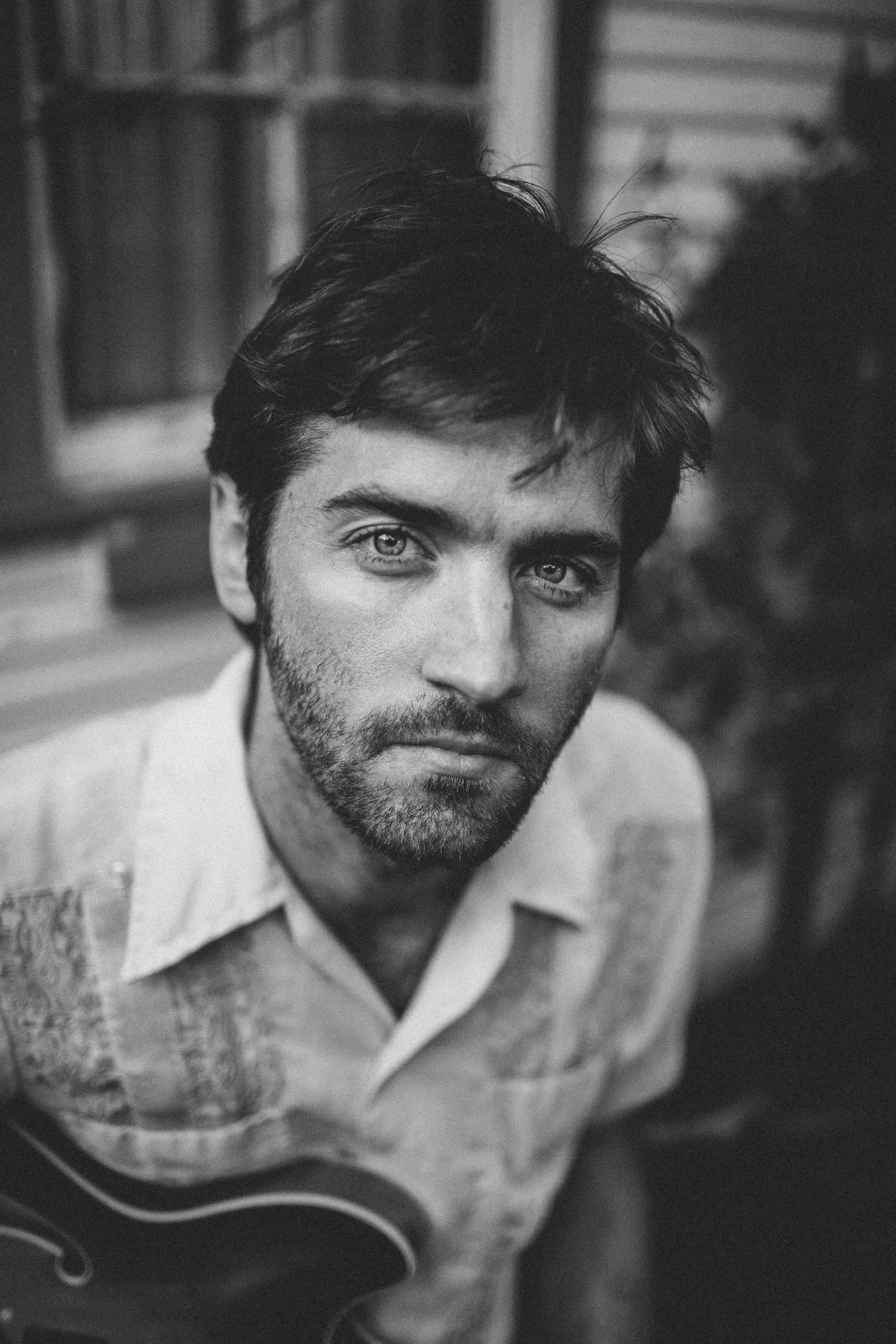 John Craigie in Portland, OR - November 2014